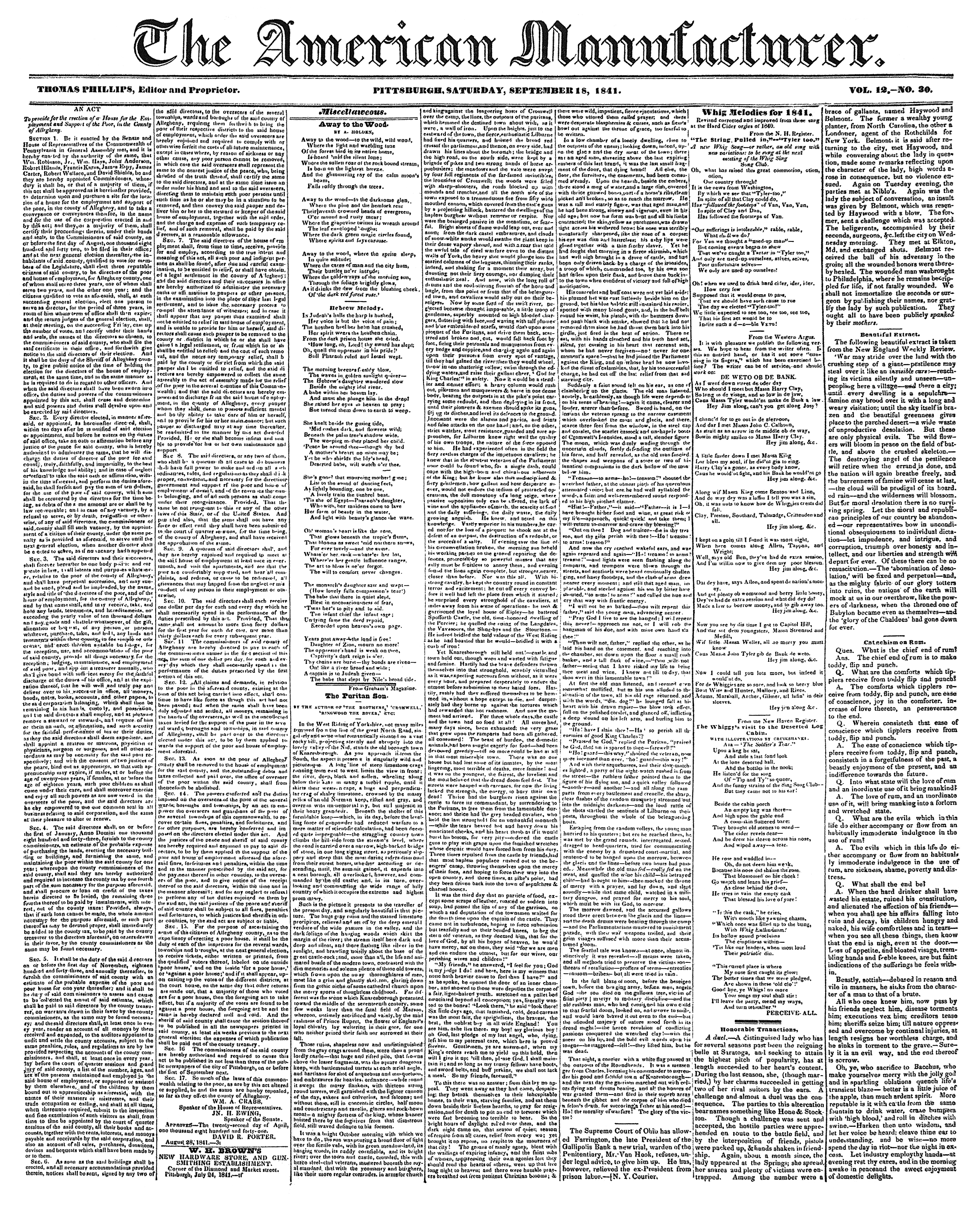 Front page of The American Manufacturer newspaper (Pittsburgh, Pennsylvania, United States), 18 September 1841. Digital scan of microfilm.